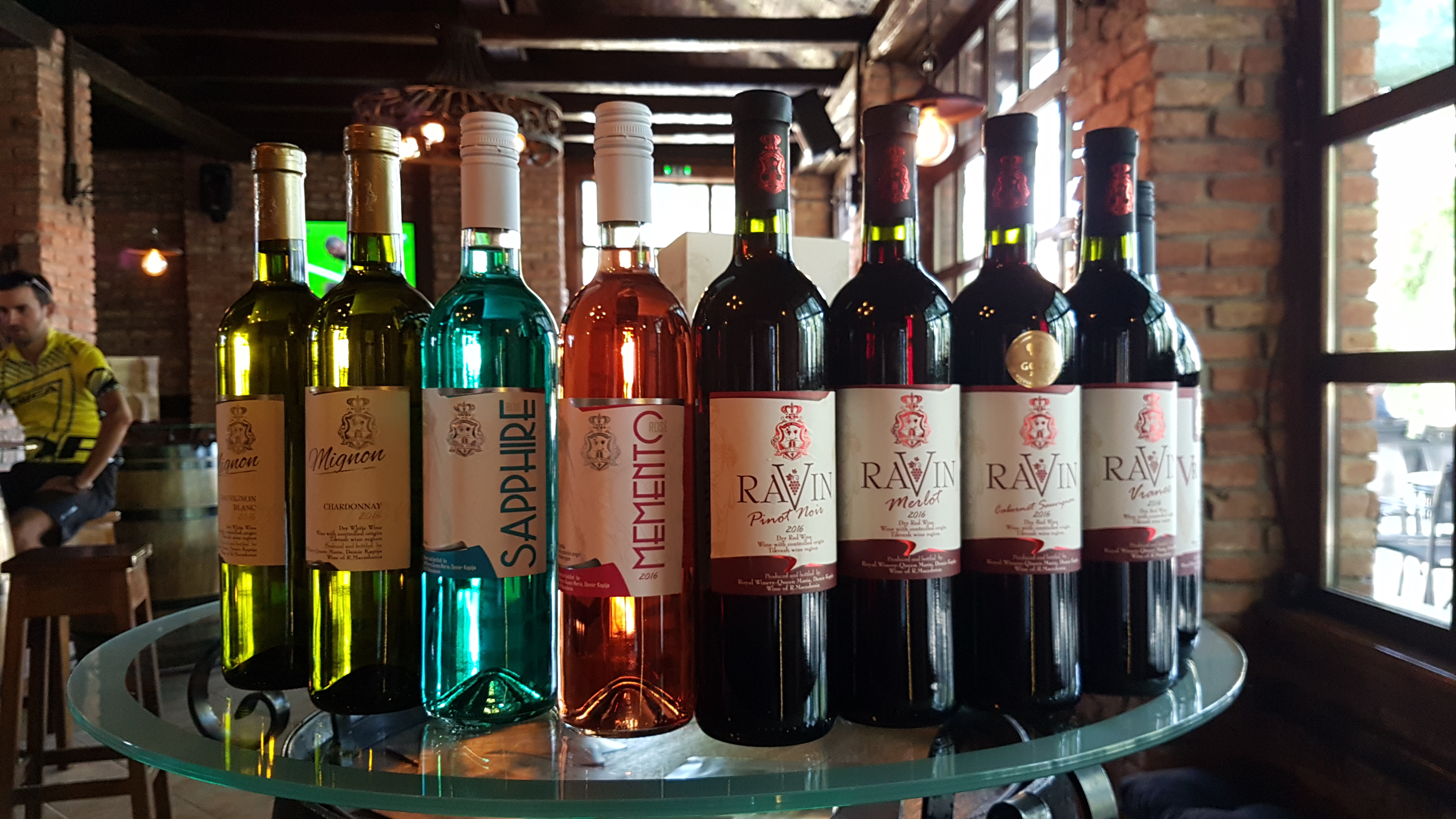 Wines from the Tikvesh region, Macedonia